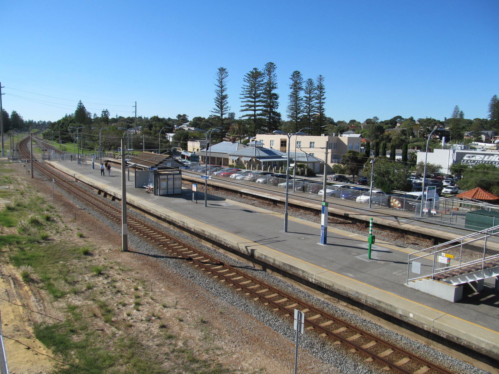 Cottesloe railway station, Perth, Australia